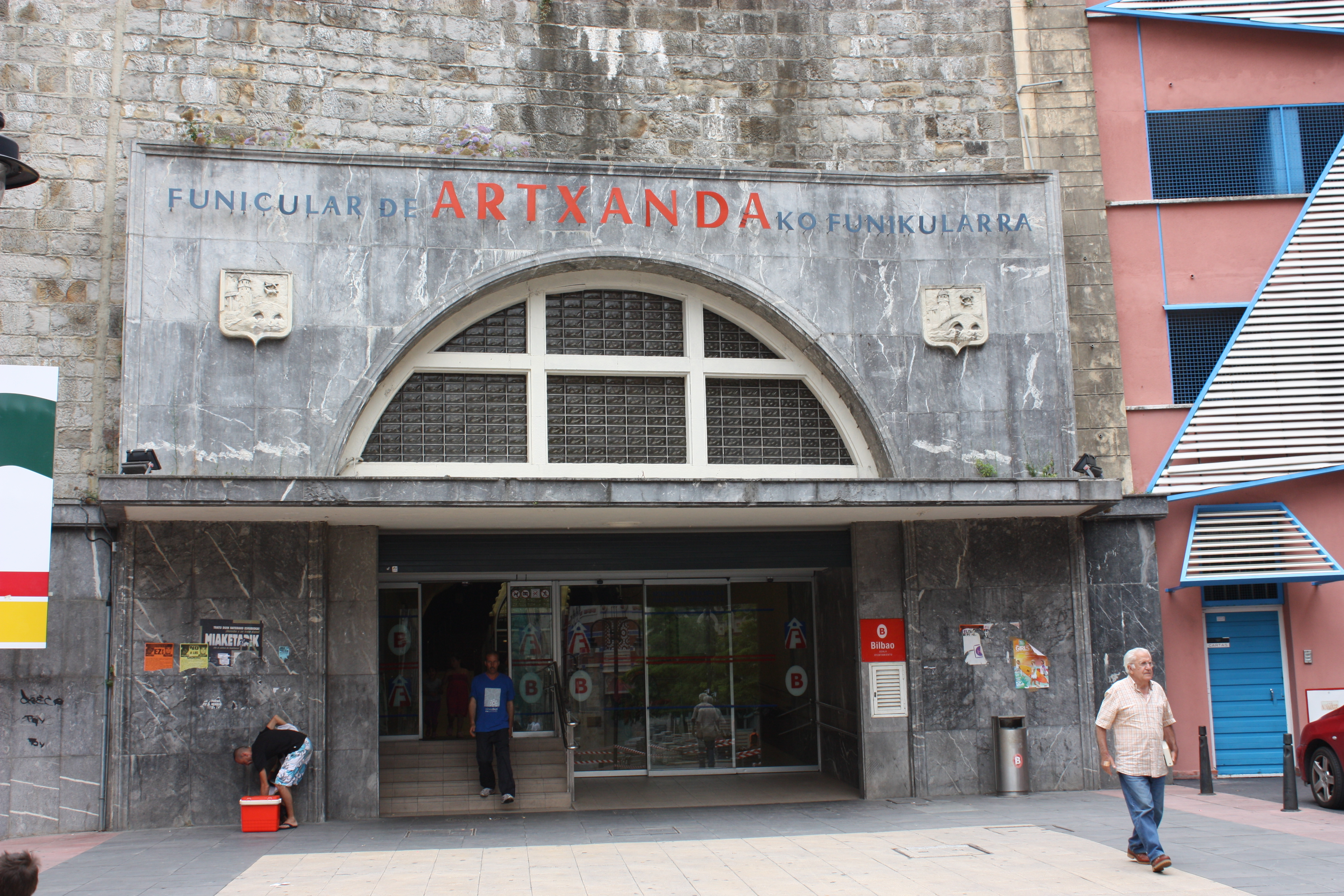 Funicular Artxanda (lower station at the bottom of Mount Artxanda), Plaza Funikularreko, Bilbao, Spain, July 2010